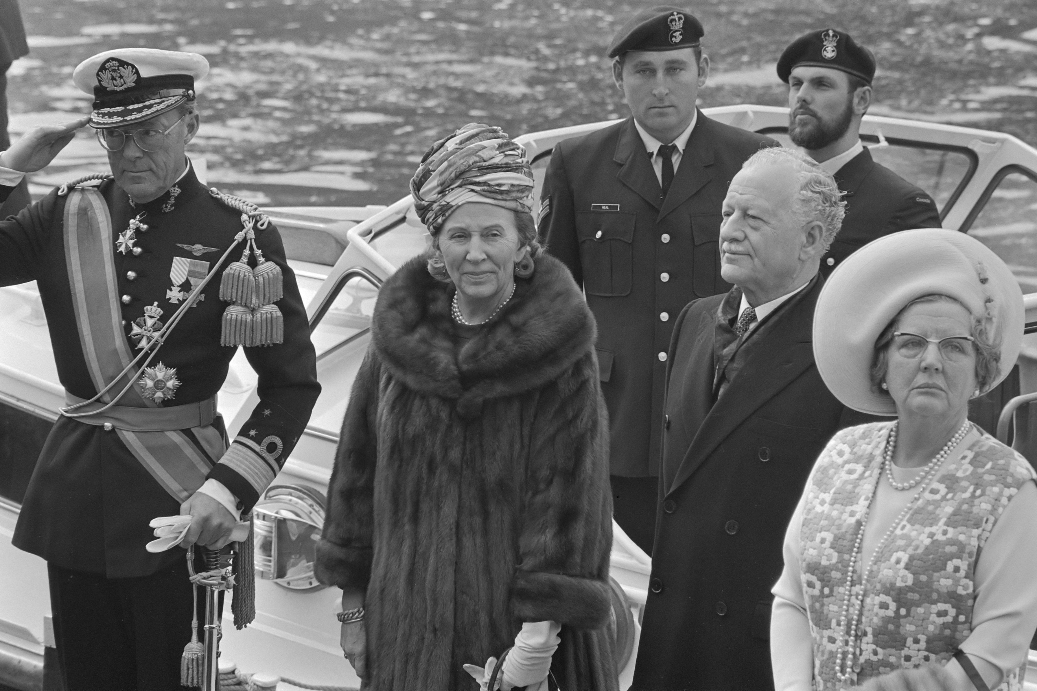 State visit by the governor-general of Canada Roland Michener and his wife Norah Willis Michener to the Netherlands. Arrival at the Central Station in Amsterdam, from left to right: Prince Bernhard, Norah Michener, Governor General Michener, Queen Juliana (partly visible)